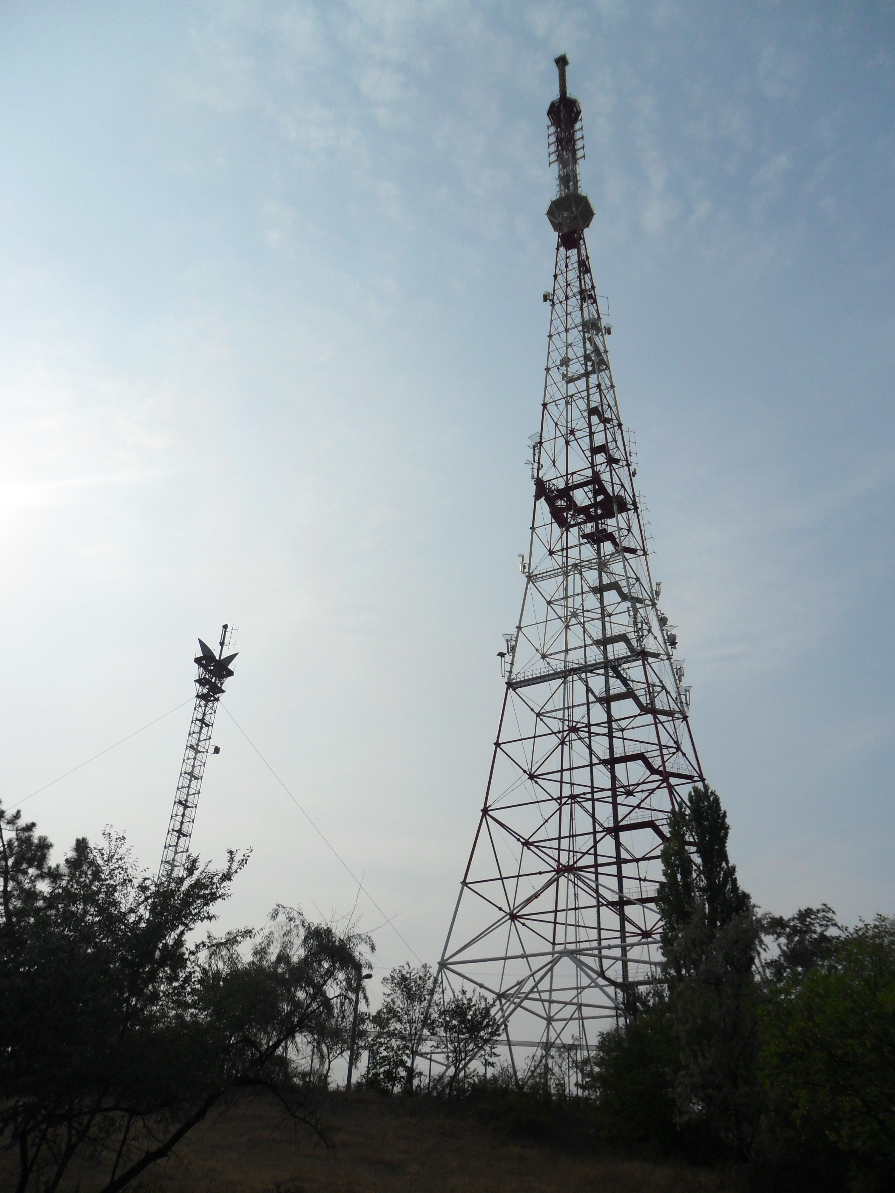 TV mast in CimișliaRomână: Antenă TV în Cimișlia